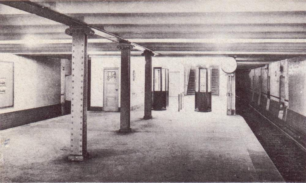 The Berlin U-Bahn station Schönhauser Tor (now Rosa-Luxemburg-Platz), line U2